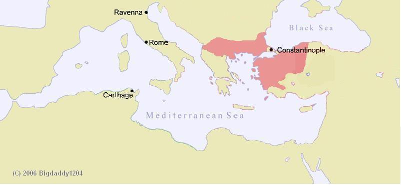 Map of the Byzantine Empire in c. 1270.